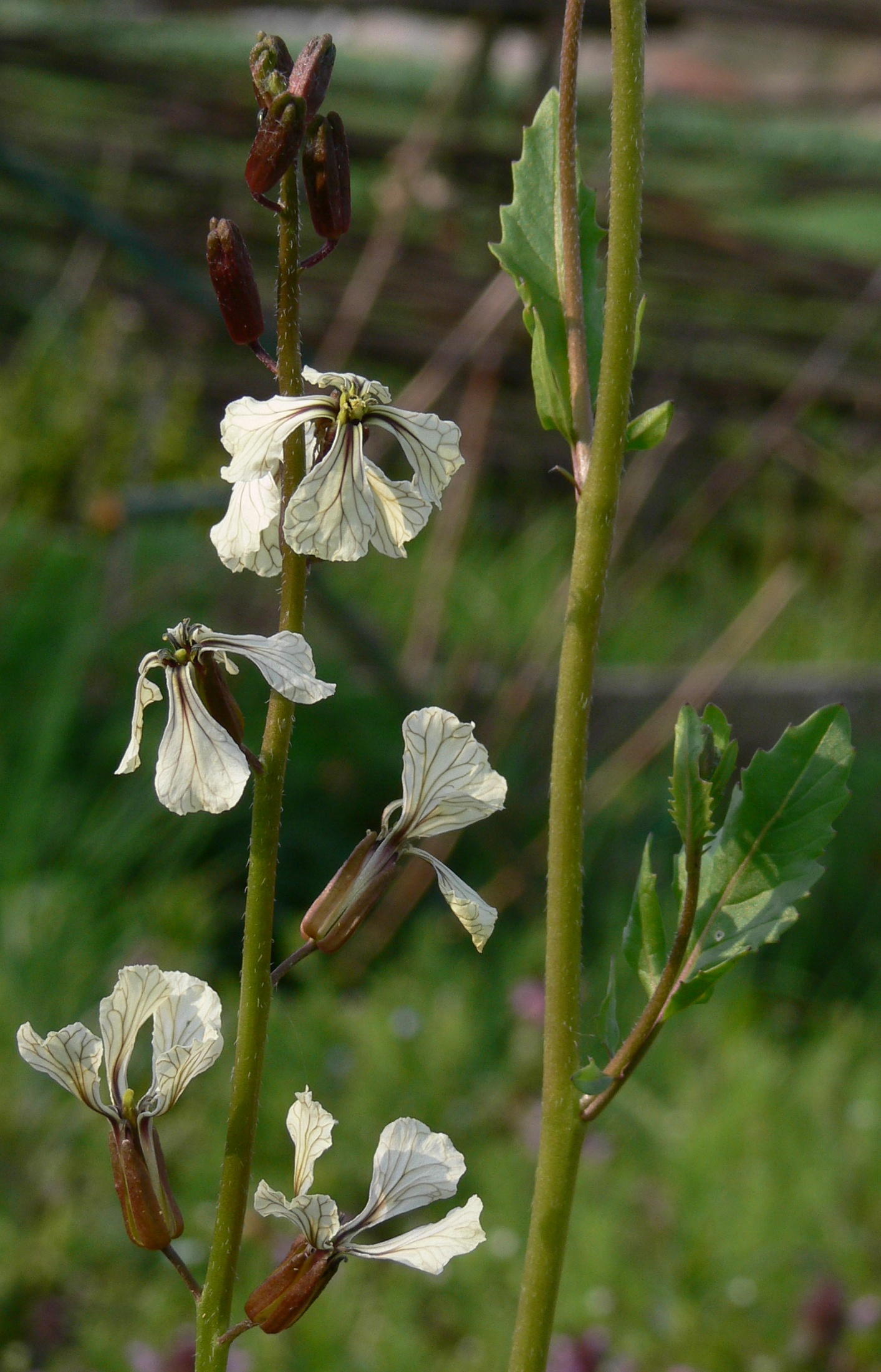 Eruca sativa, flowers, Untereisesheim, Germany